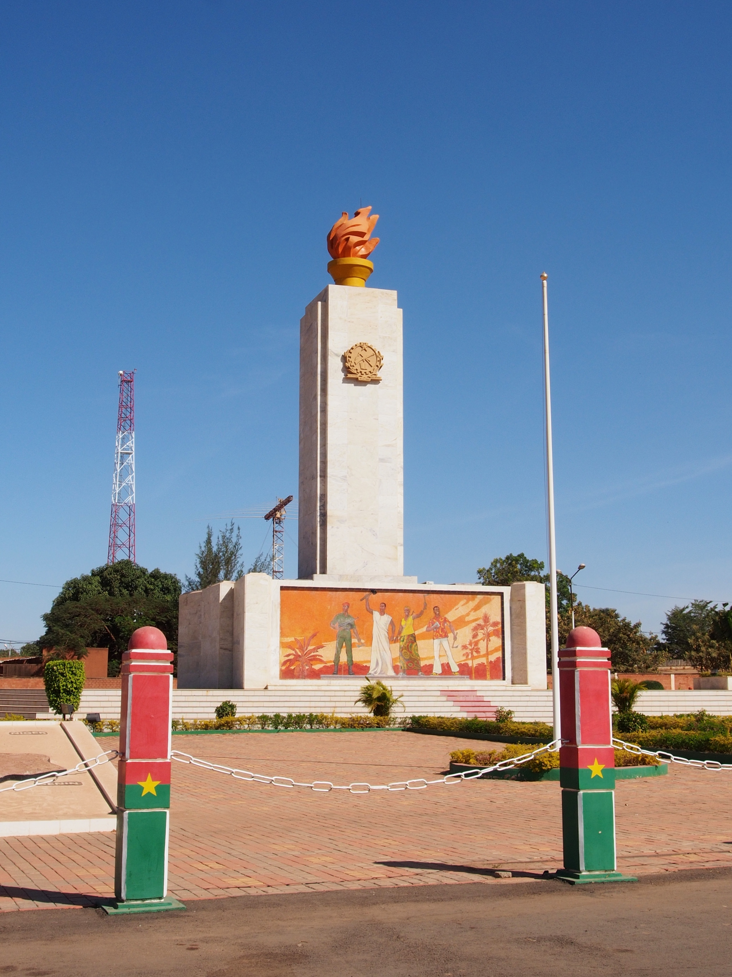 Monument of the revolution in Ouagadougou, Burkina Faso